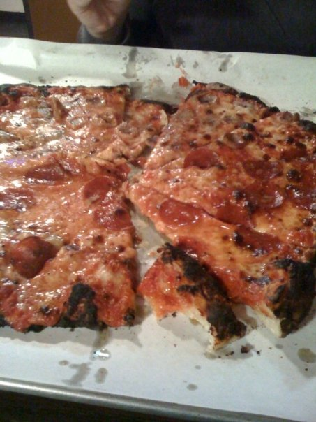 A partially eaten pepperoni pizza from Sally's Apizza in New Haven, CT